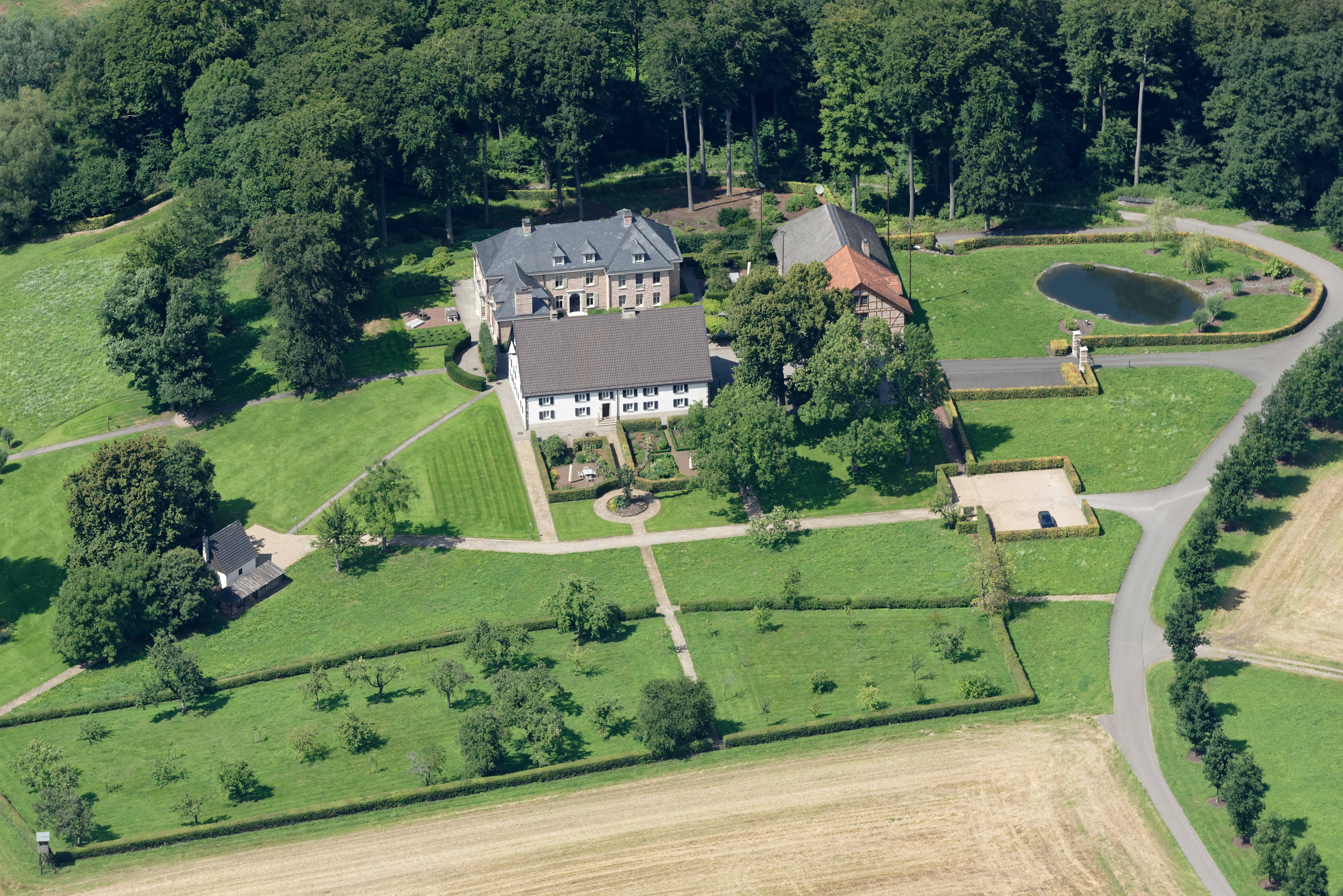 The making of this document was supported by the Community-Budget of Wikimedia Germany. Haus Eicken in Werdohl